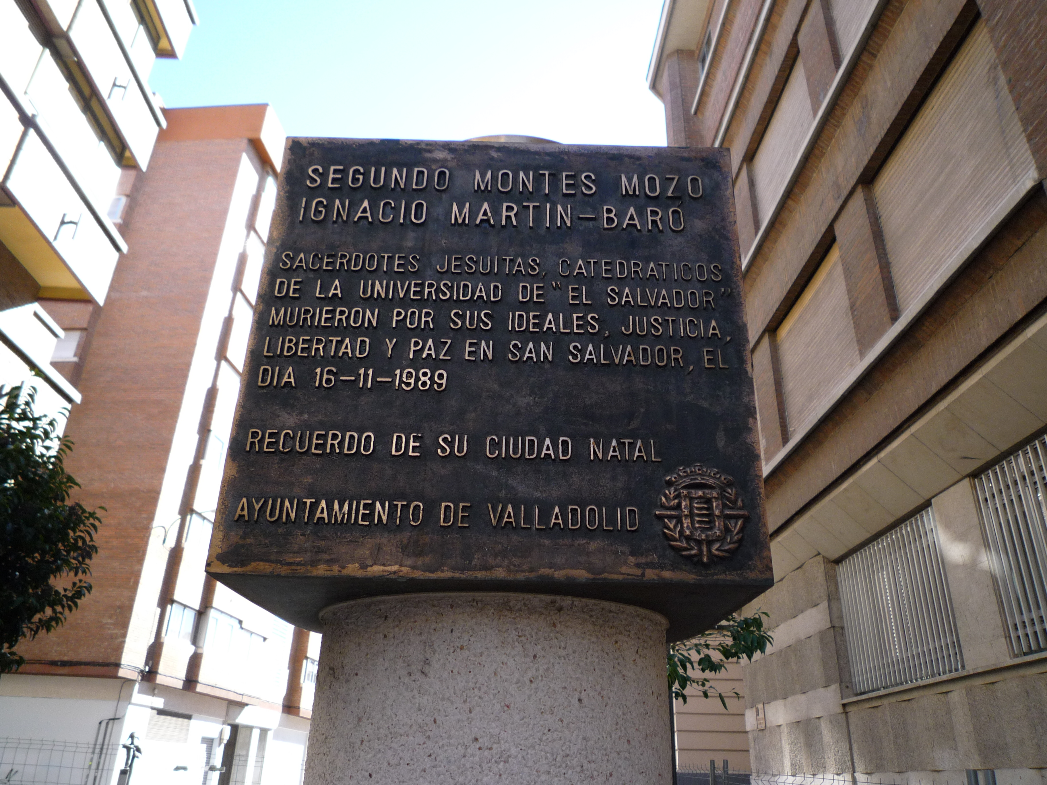 Sculpture tribute to jesuits from Valladolid, Spain, Segundo Montes and Ignacio Martín-Baró in the street Simon Aranda of the city